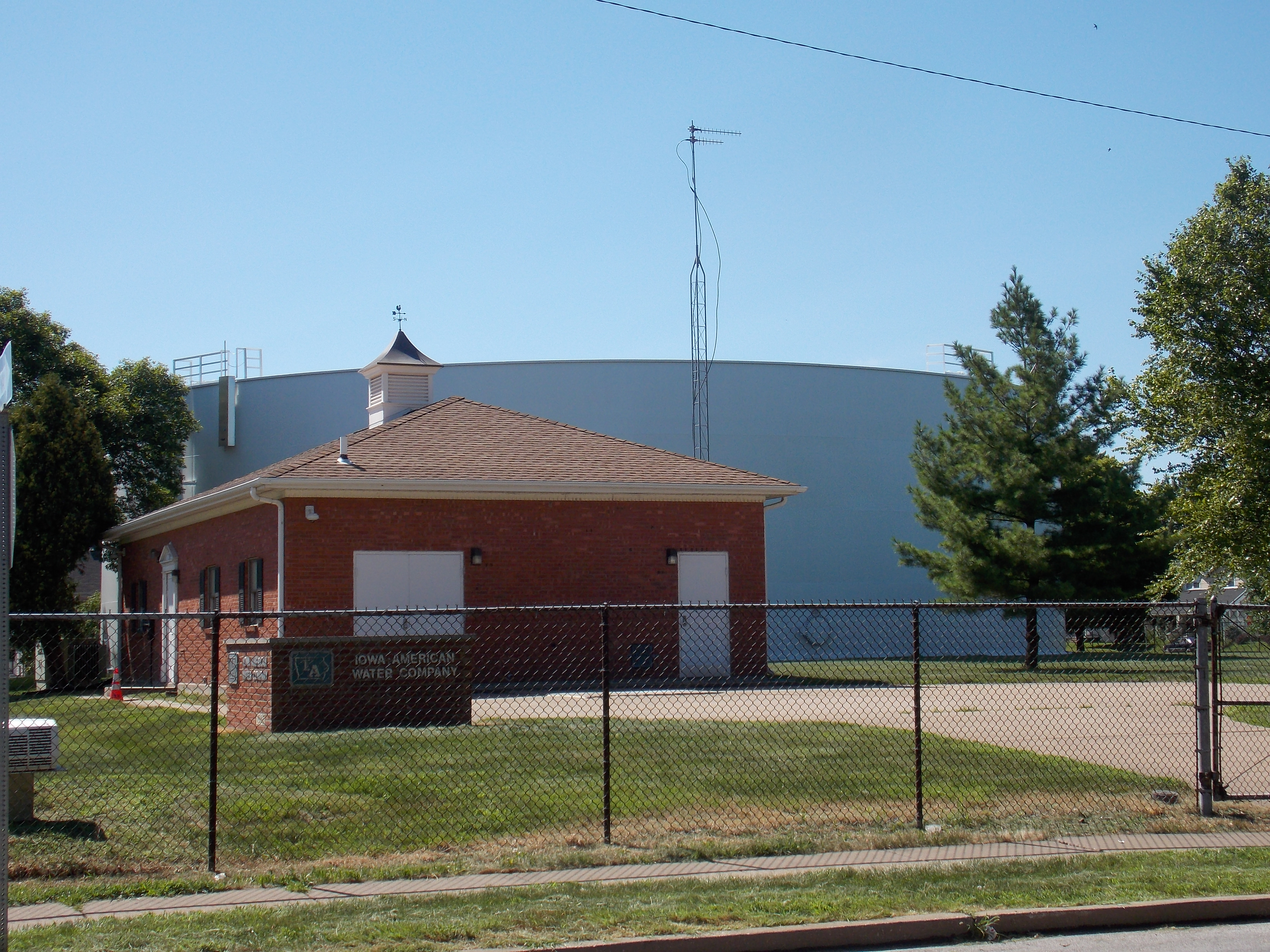 The Davenport Water Co. Pumping Station No. 2 was listed on the National Register of Historic Places until it was torn down. This where it was located and it was replaced by this building.